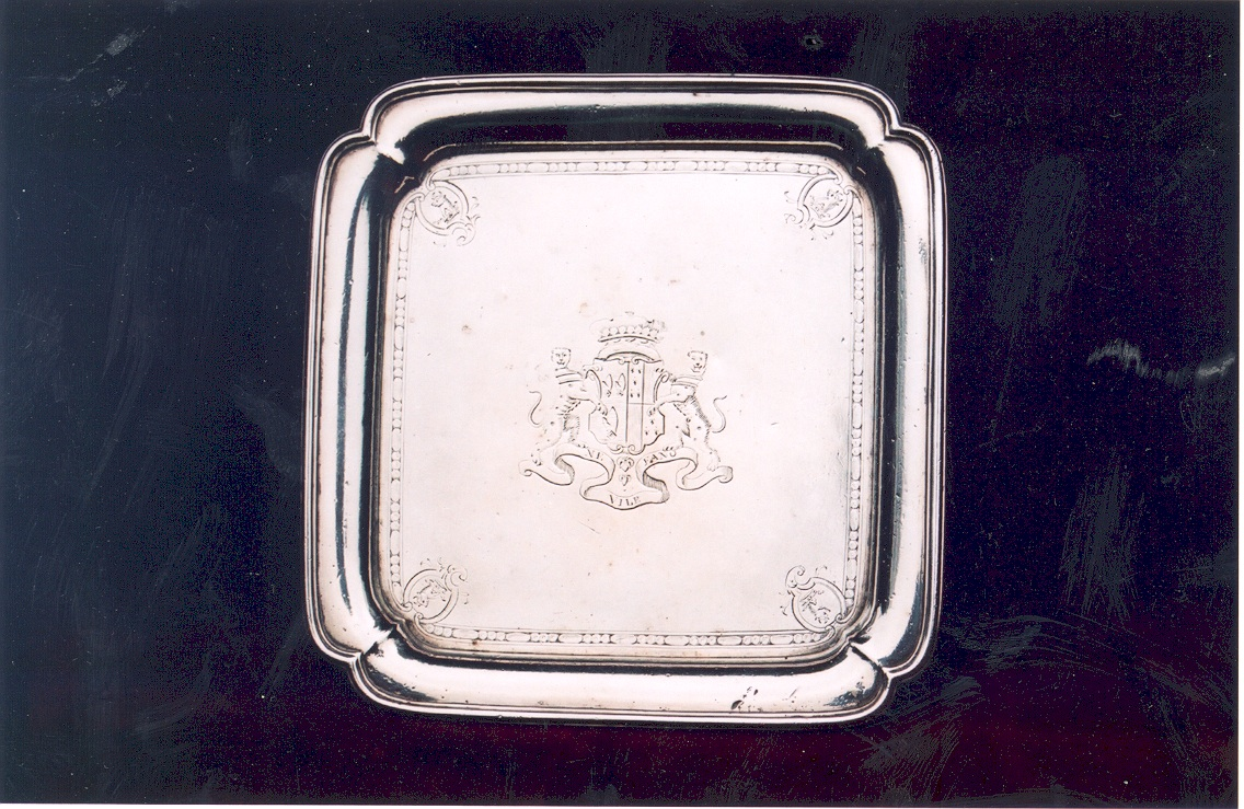 Britannia gauge silver waiter dated 1732, with Fane crests and arms of Fane impaling Stanhope, for Charles, 1st Viscount Fane and Mary, daughter of Hon. Alexander Stanhope, FRS. Date of waiter (1732) coincides with their 25th wedding anniversary so possibly a silver wedding present, if such things existed in 1732. Maker, Paul de Lamerie. If used please credit: R. de Salis